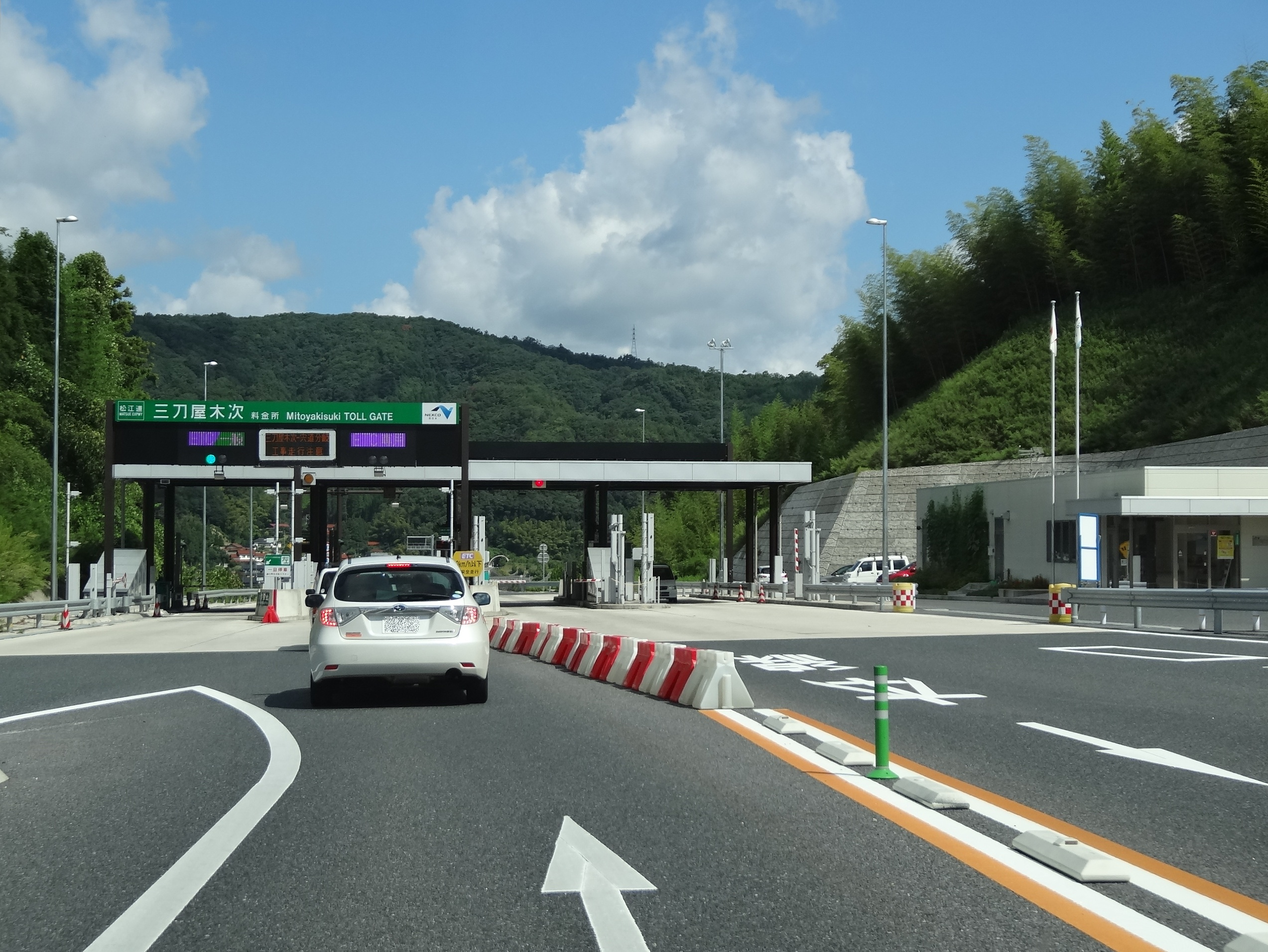 The Matsue Expressway Mitoya-Kisuki Toll Gate in Unnan City, Shimane Prefecture, Japan.